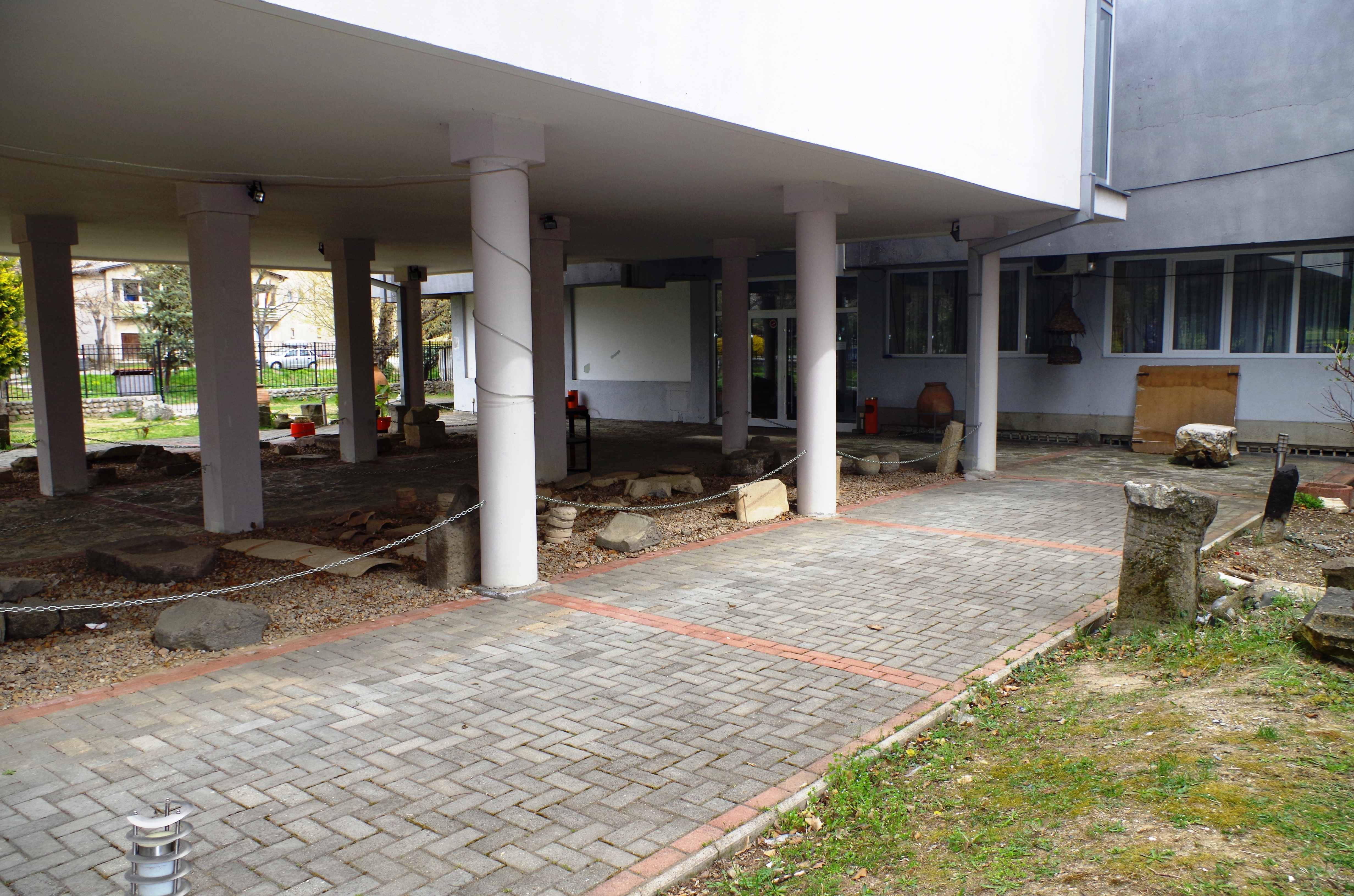 Negotino Town Museum